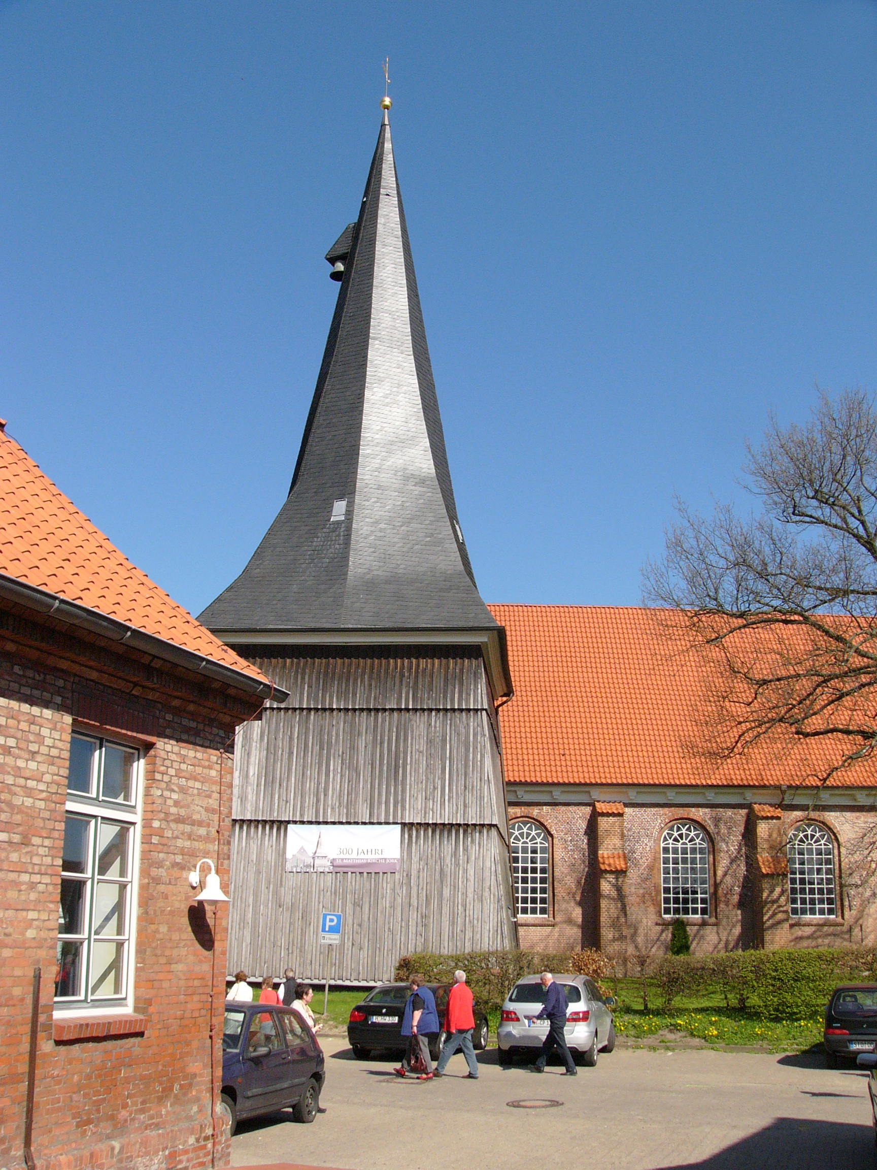 St. Matthias Church in Jork, Germany